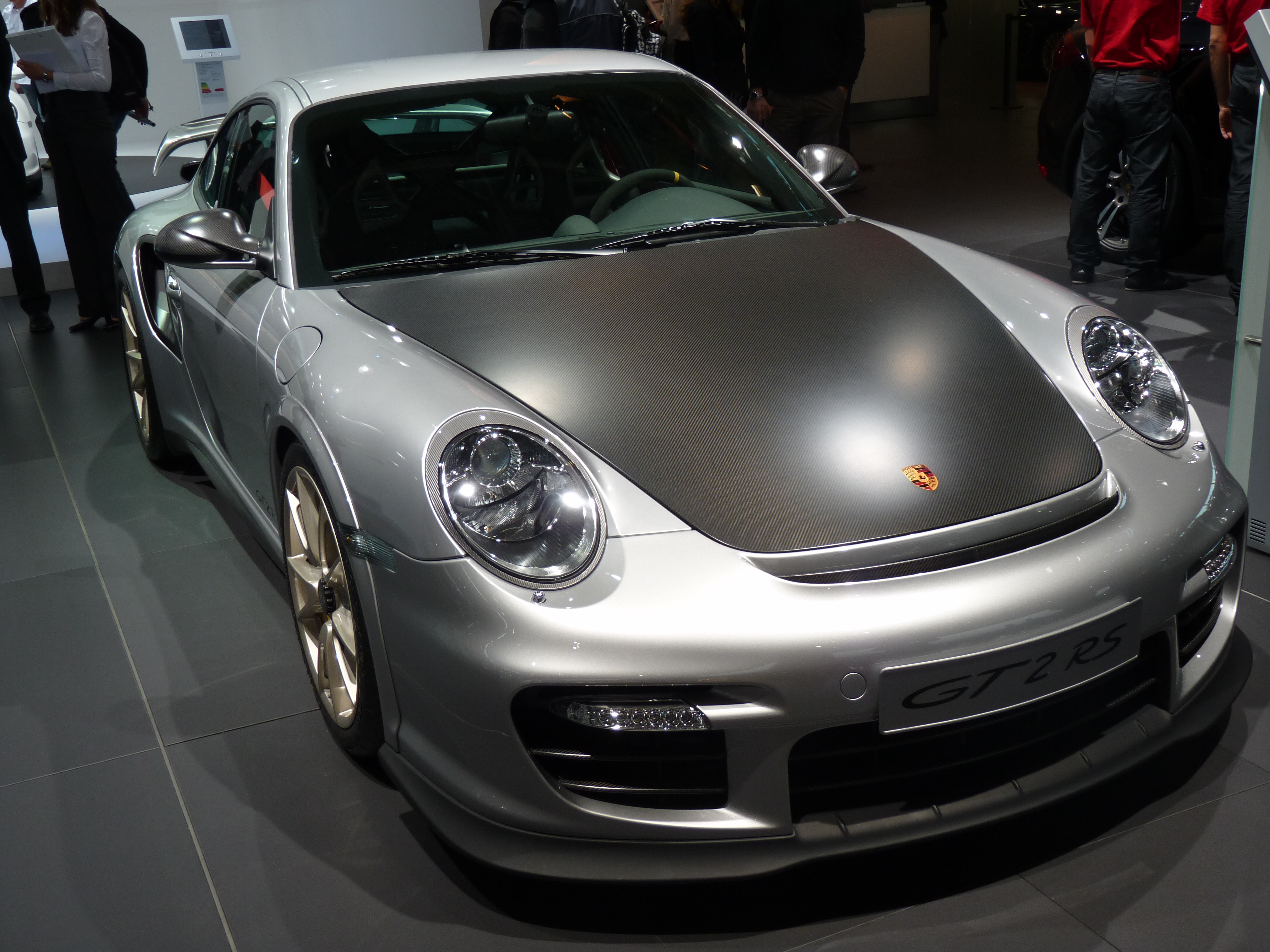 A Porsche 911 GT2 RS at the Paris Motor Show.